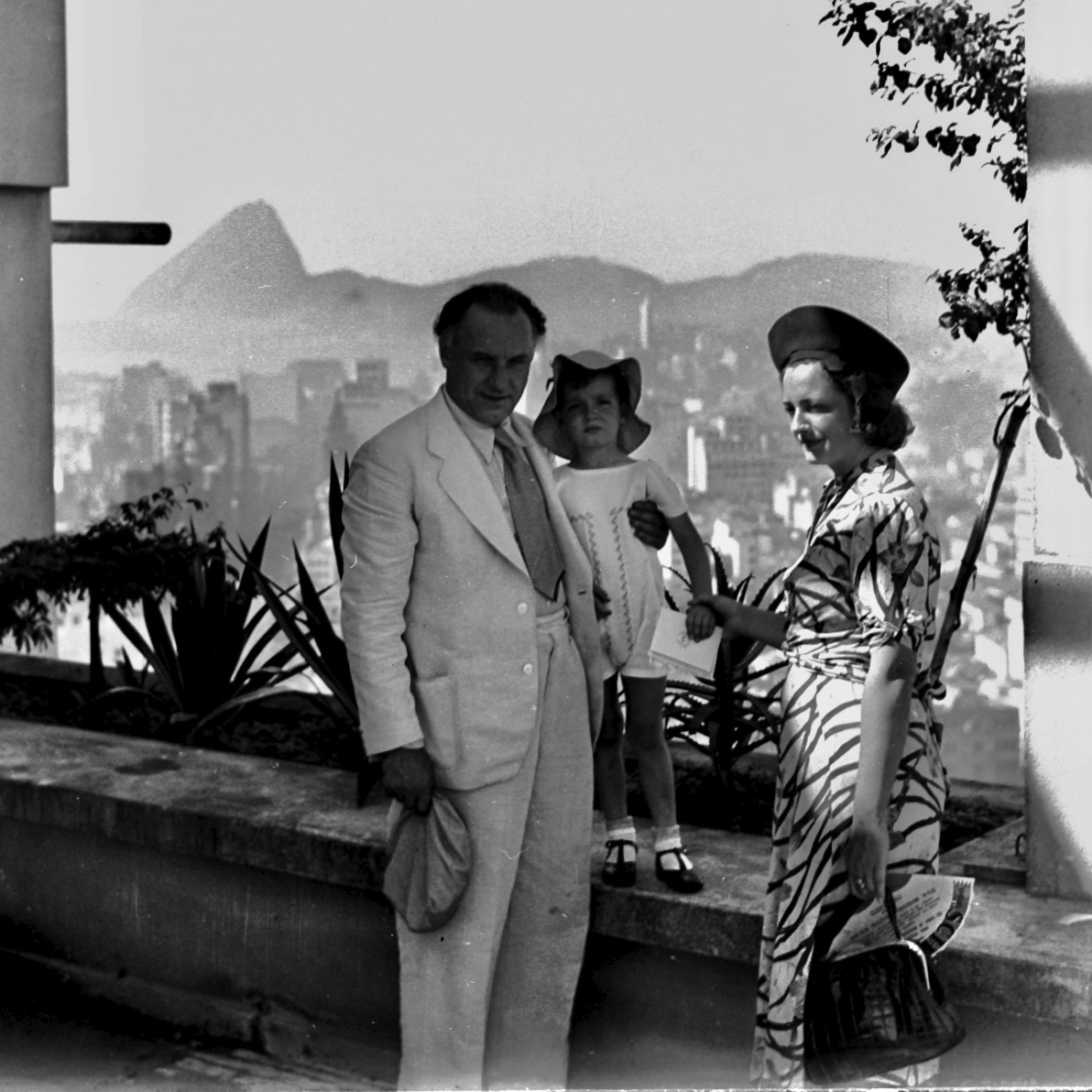 The German cinematographer Arnold Fanck (1889–1974) with his second wife Elisabeth (* 1908), née Kind, and his second son Hans-Joachim (* 1935) in 1938/39 when he was filming on different sets in South America for his movie A German Robinson Crusoe which premiered in 1940